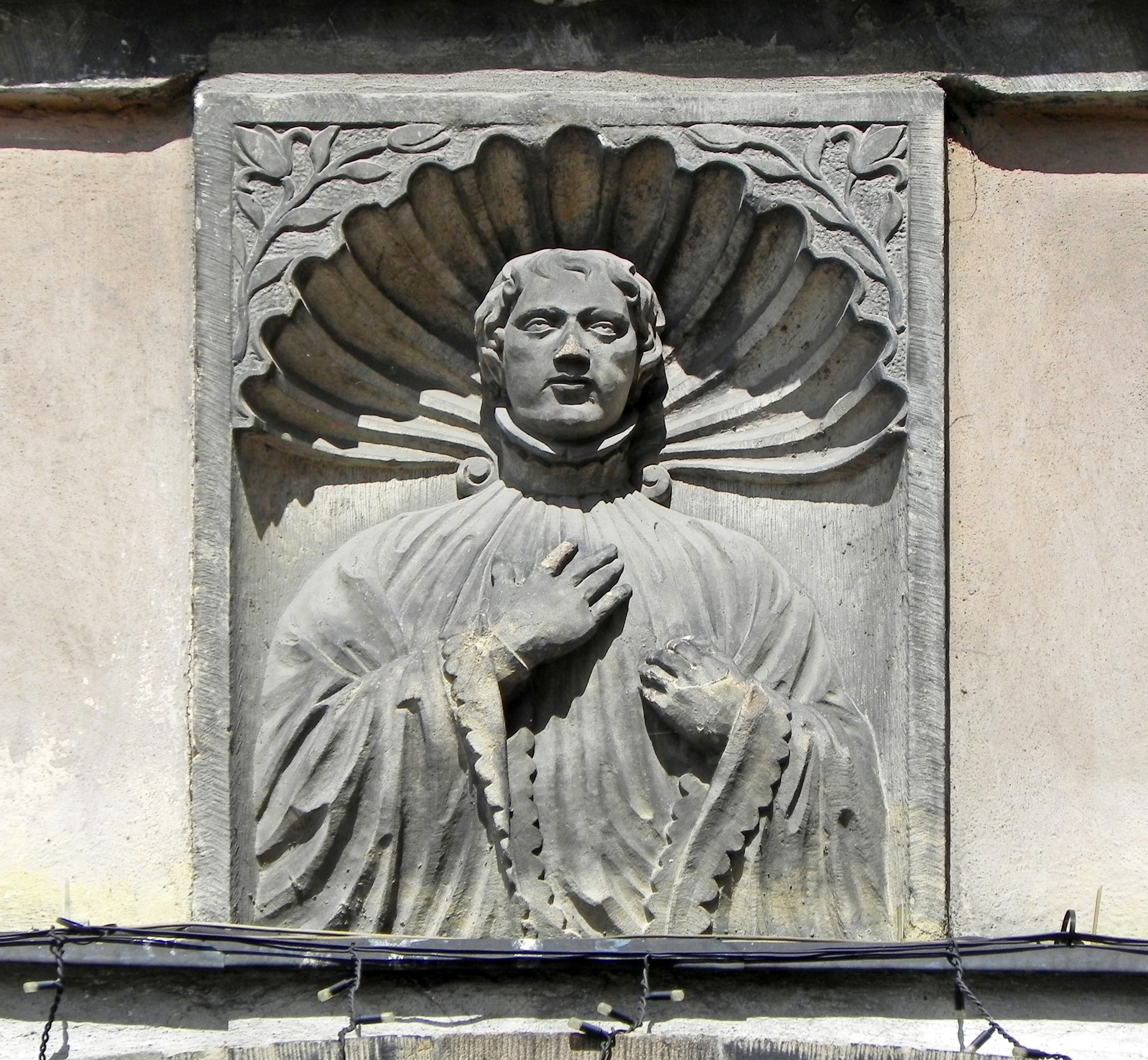 Kłodzko, former boarding school, now museum